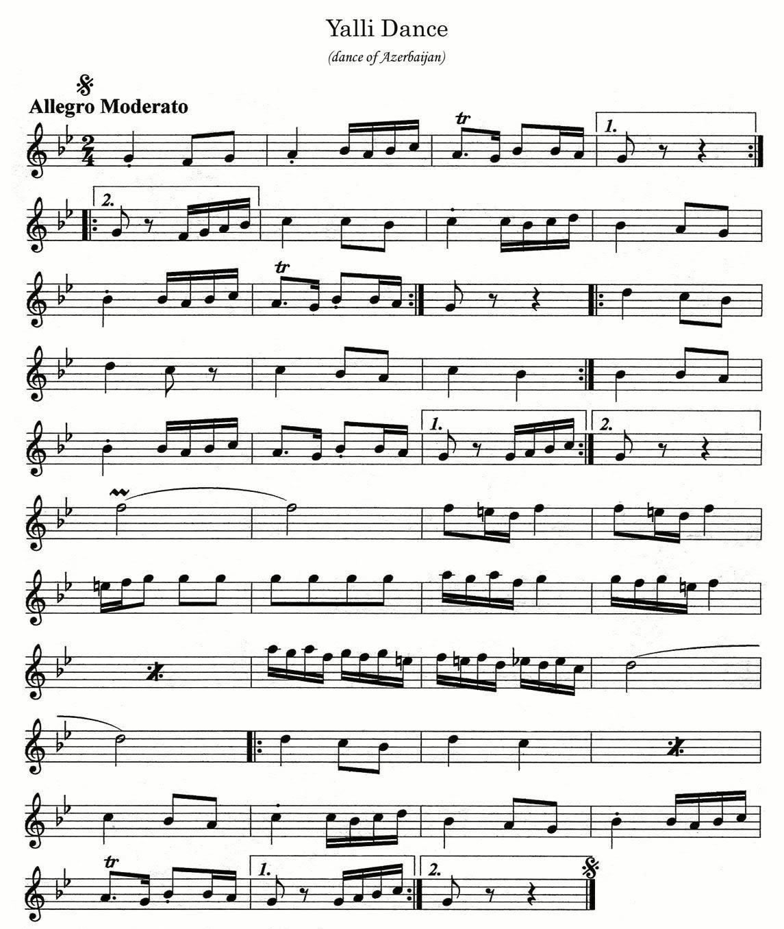 Azerbaijan national folk dance Yallı